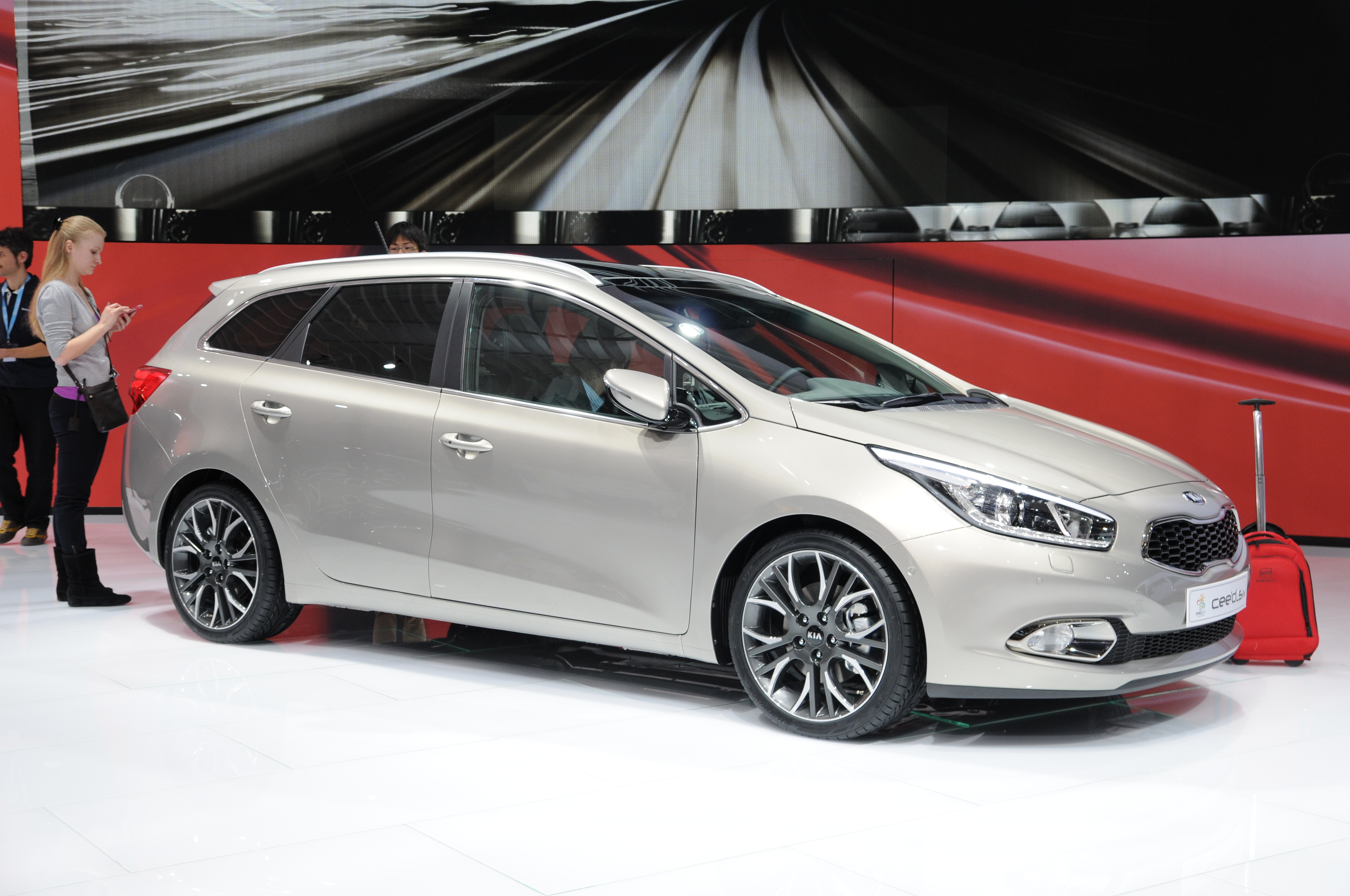 Geneva Motor Show 2012 (photos taken on the second press day)